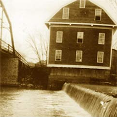 Third War Eagle Mill building. Captioned "Third Mill and bridge, 1920" on source page.